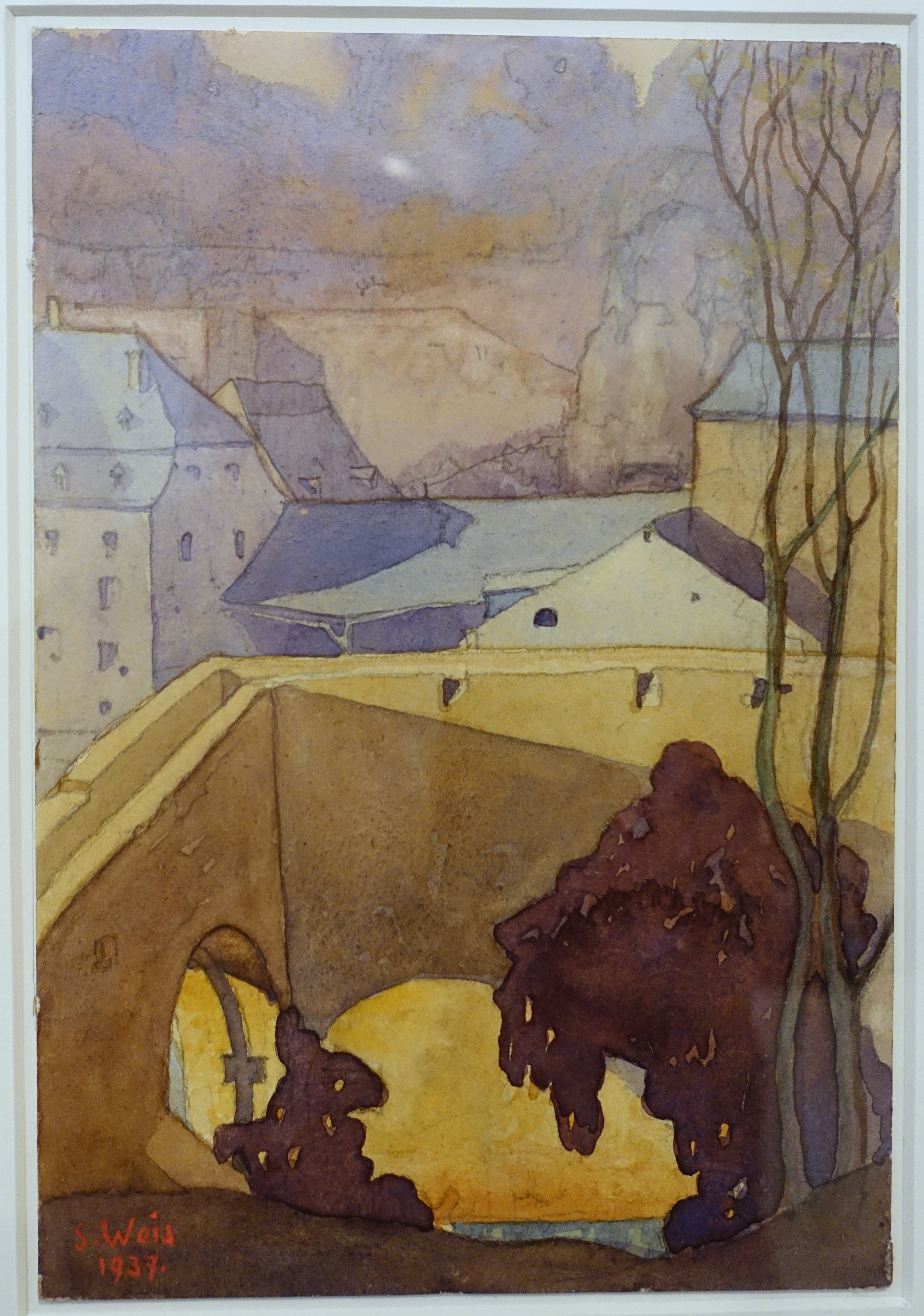 Painting by Sosthène Weis in the Villa Vauban - Luxembourg City, Luxembourg.